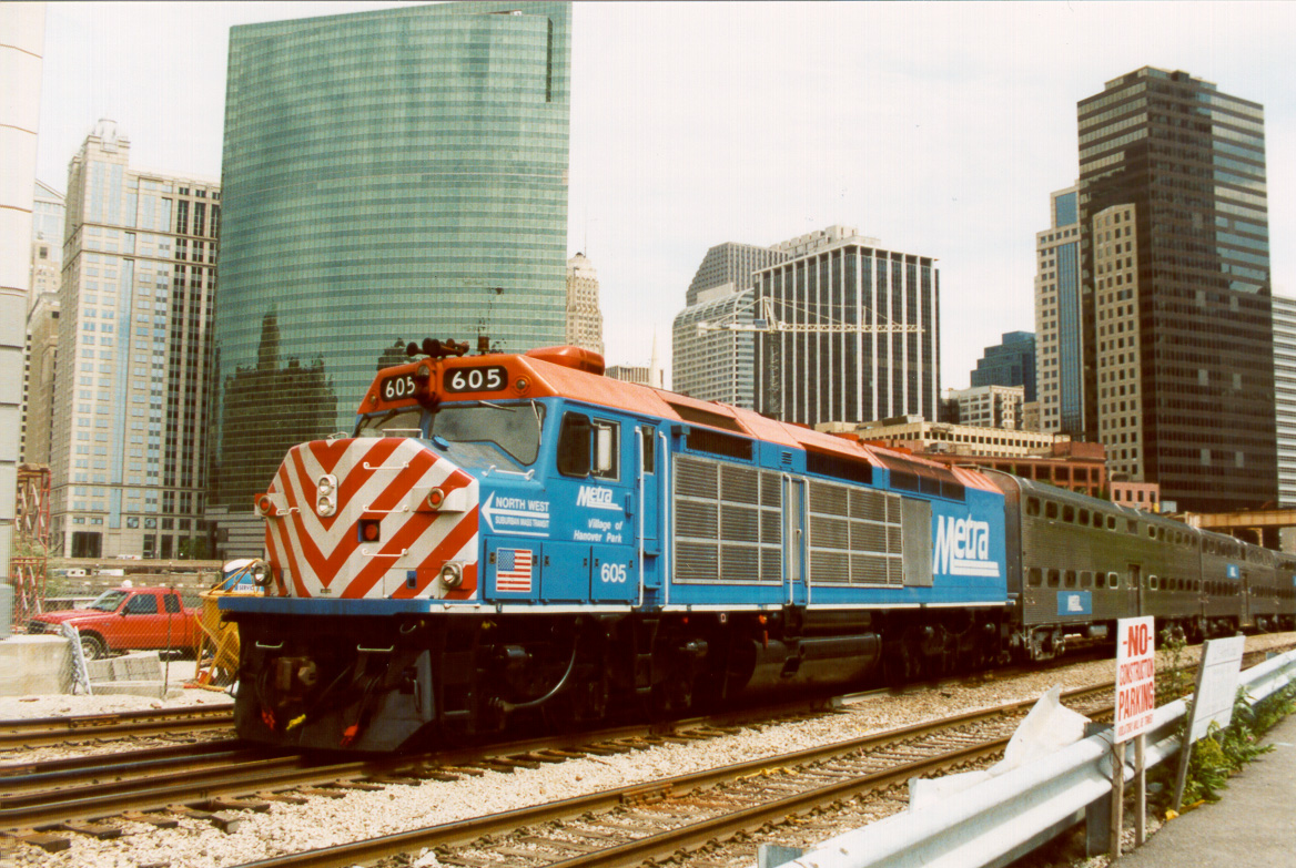 Metra EMD F40C #605 "Village of Hanover Park" on the Milwaukee Road Service near Lake St. Tower, September 2001.